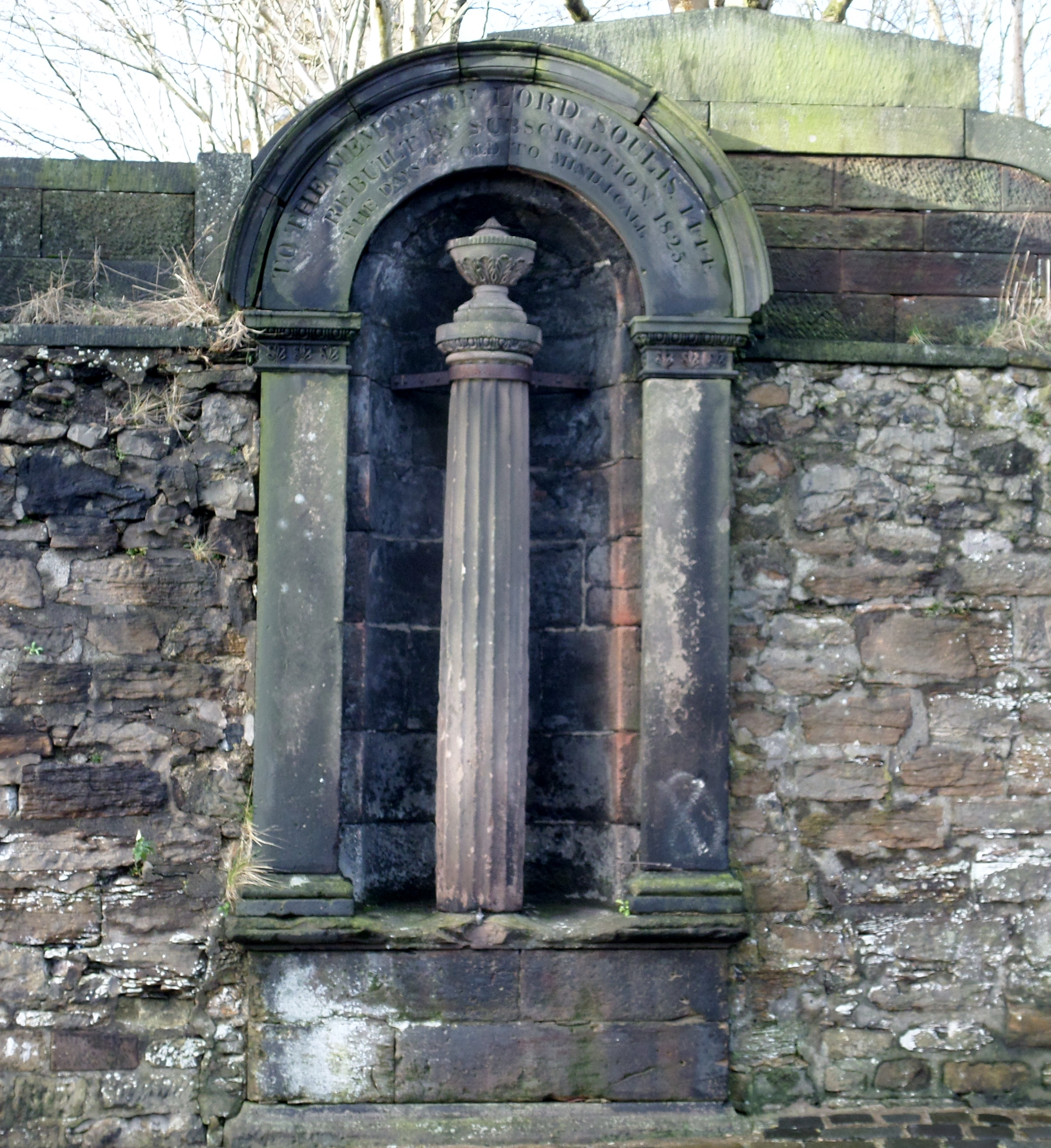 The restored Soulis Cross, High Kirk Cemetery wall, Kilmarnock, East Ayrshire, Scotland. It is unclear as to who Lord Soulis was and how he came to be killed here.